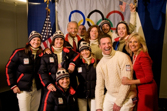 Vice President Joe Biden and Dr. Jill Biden take a team photo with the 2010 Winter Olympics U.S. Snowboarding team in Vancouver, Canada.